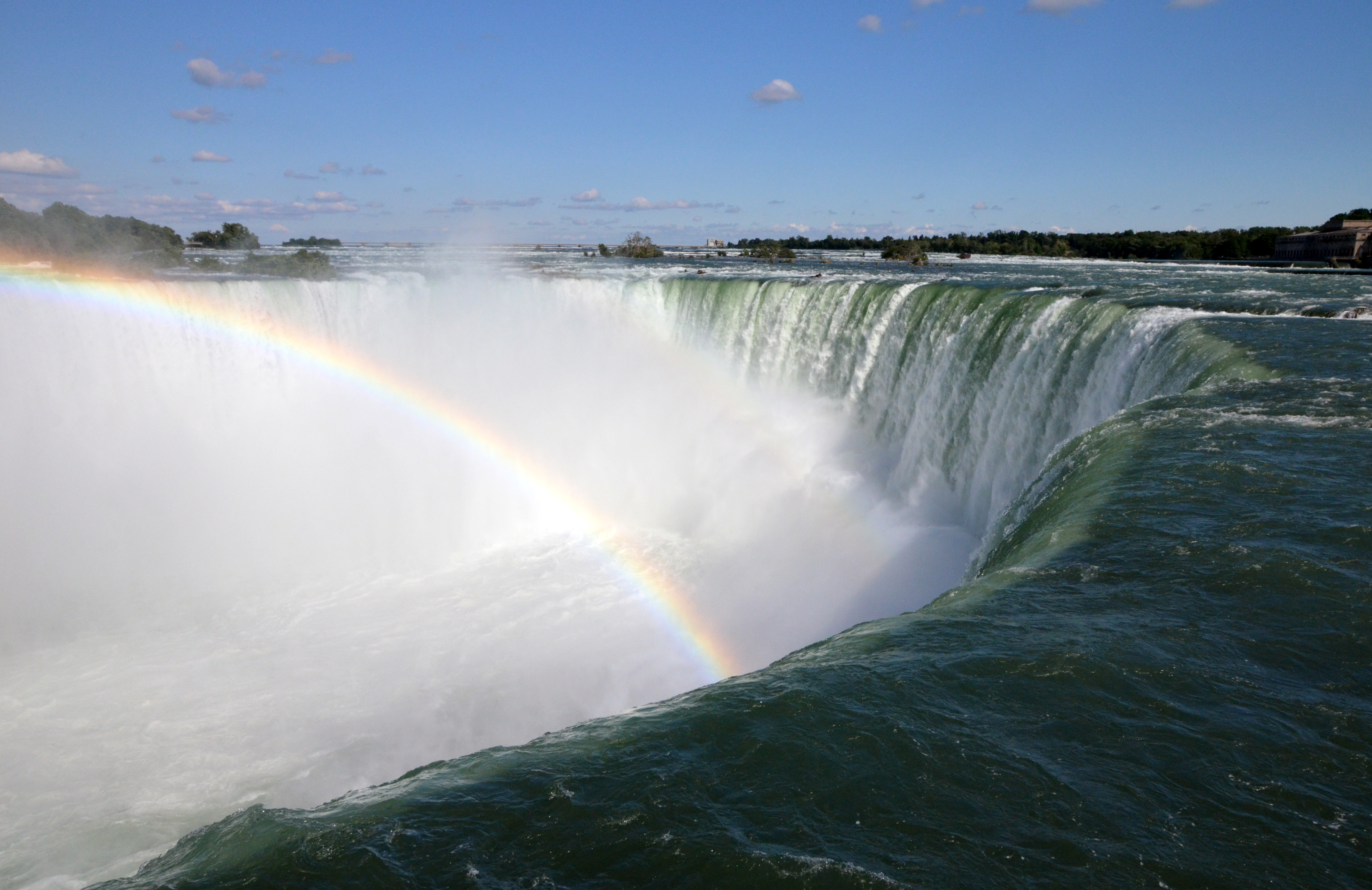 The Horseshoe Fall, part of Niagara Falls (Ontario, Canada)